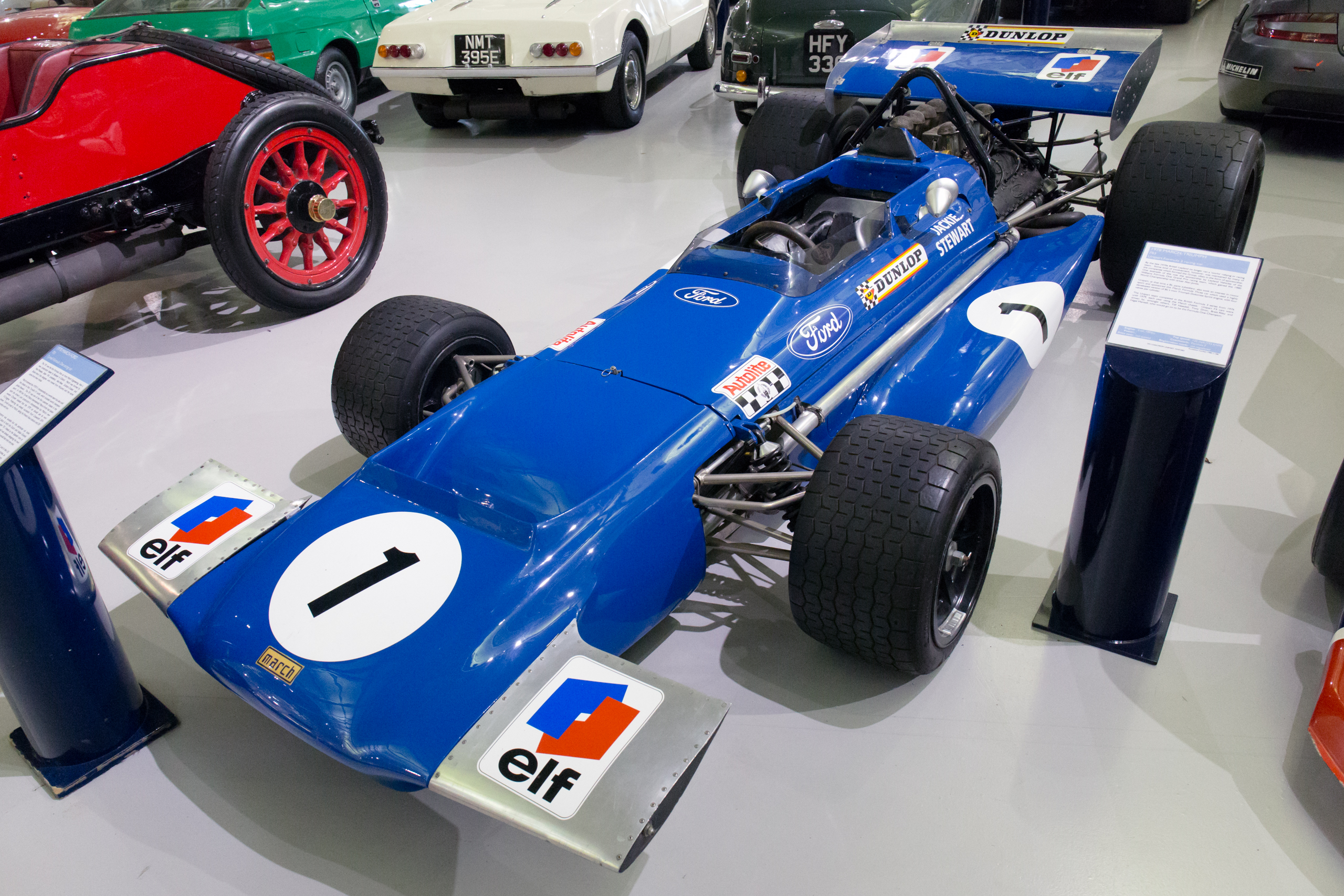 1970 March 701 of Tyrrell Racing